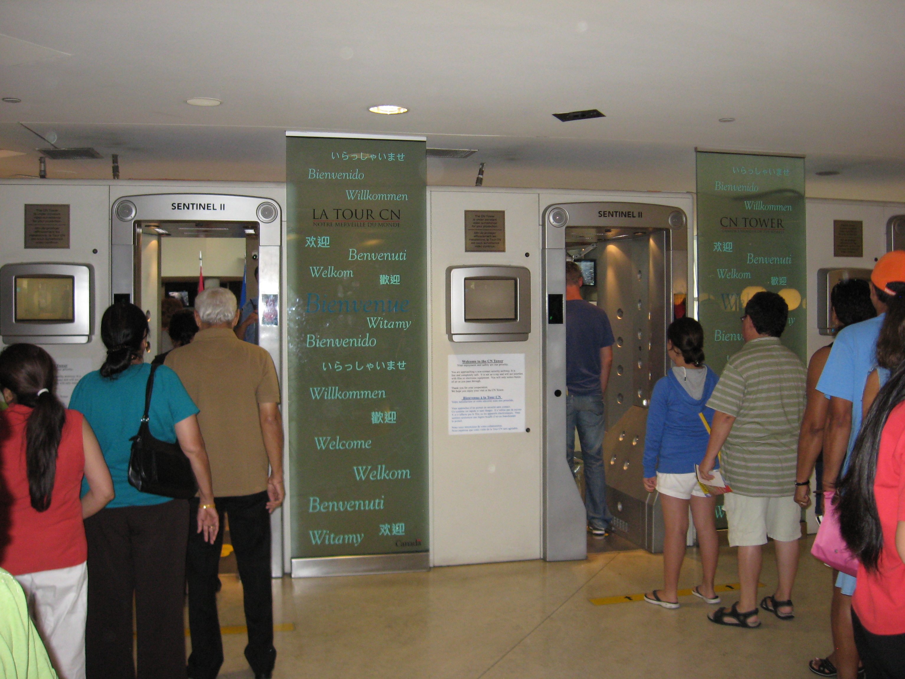 SENTINEL II in CN Tower, Toronto, Canada. The challenge of detecting threats being carried by a person onto public transportation systems and into public and private buildings is one that is made easier with the IONSCAN SENTINEL II from Smiths Detection. Only the SENTINEL II walk-through portal offers true head-to-toe, non-contact screening of people for trace explosive or narcotic substances.